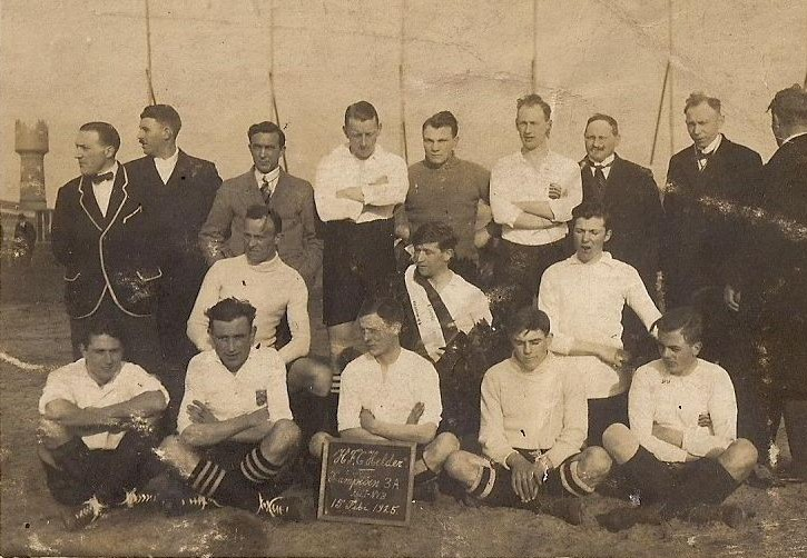 The HFC Helder football squad in 1925.